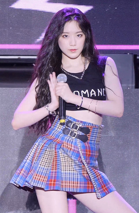 Shuhua of (G)I-dle performed "Latata" at Chinese International Student Festival on September 20, 2019.